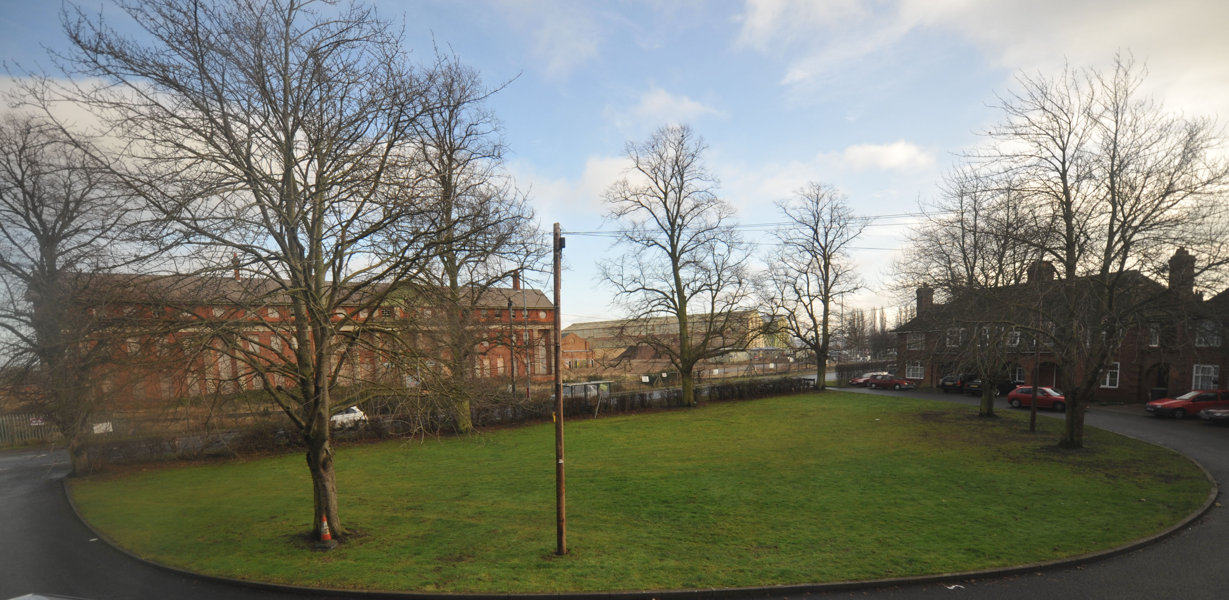 This is a view from The Crescent in Shortstown, Bedfordshire, UK. The large building on the left is the now-derelict Shorts Building. To the right of the utility pole can be seen the two Cardington Airship Sheds where the R100 and R101 were built. I took this photograph myself and release it into the public domain.